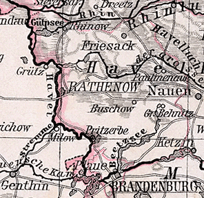 Detail from a map of Brandenburg.